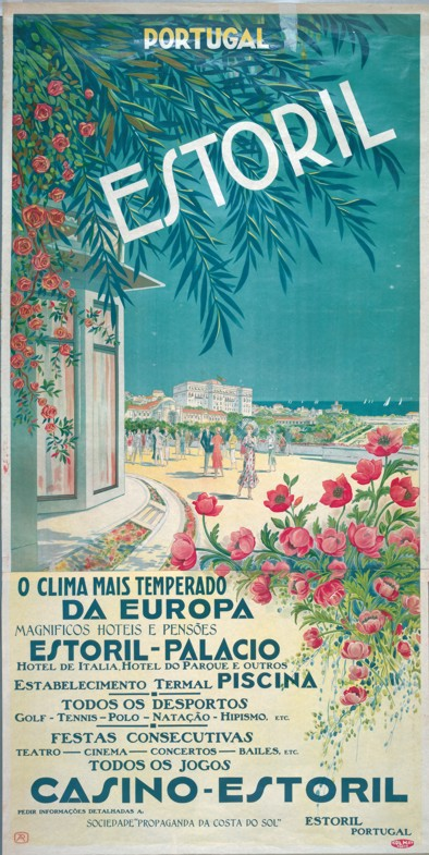 publicidade antiga - casino estoril